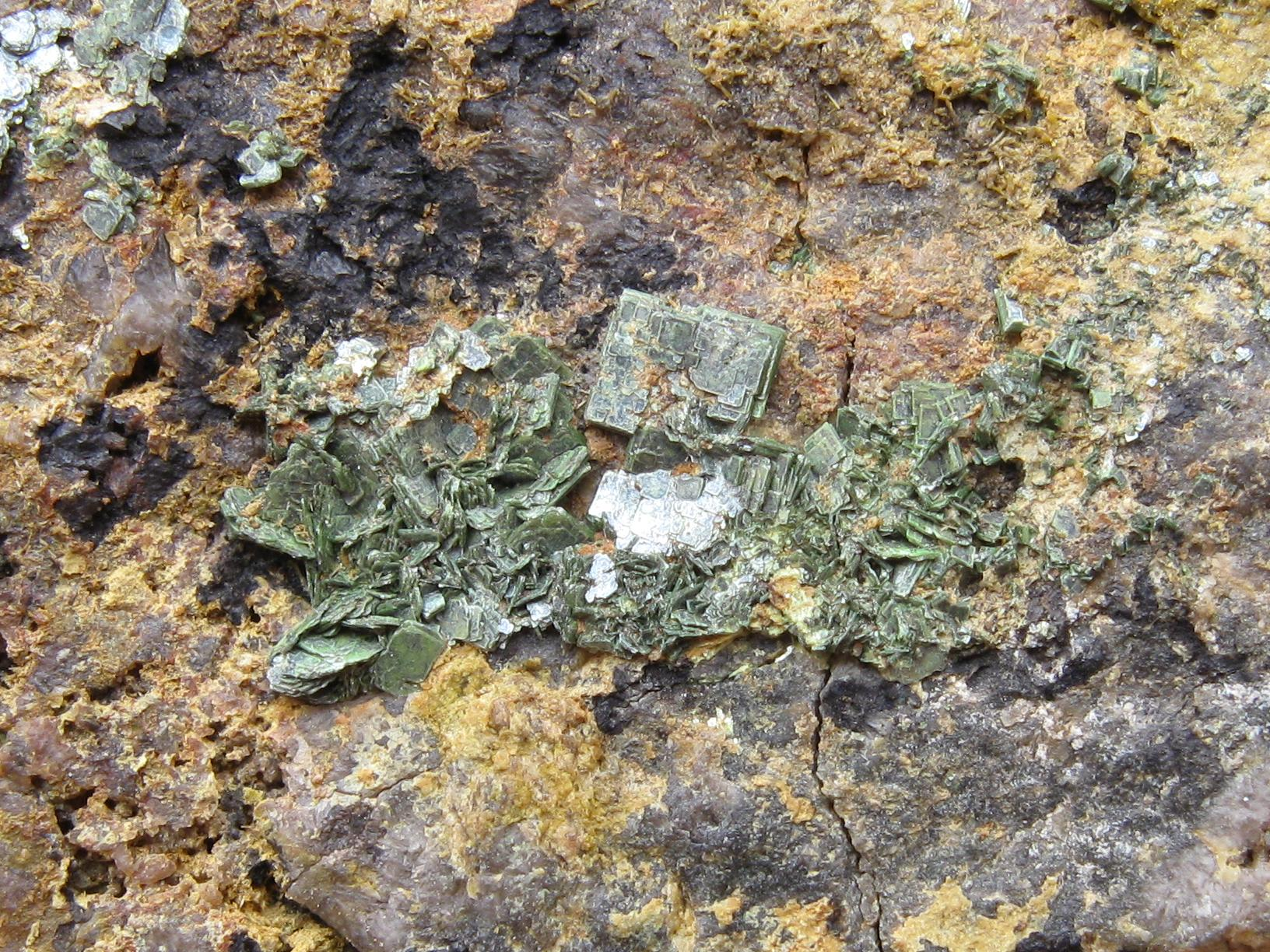 Uranocircite - Zálesí (Javorník) uranium mine, Czech Republic.